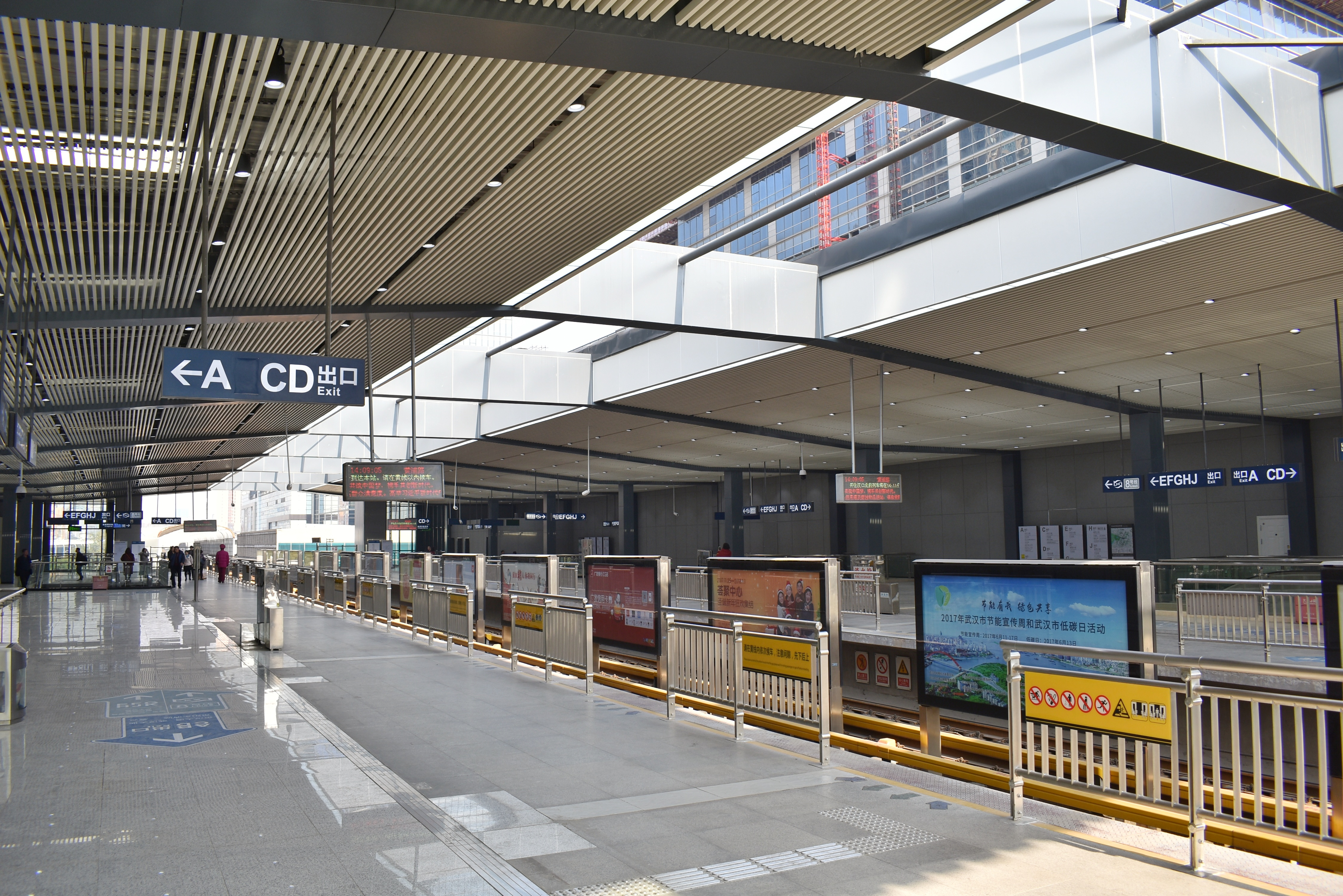 Platform of Line 1